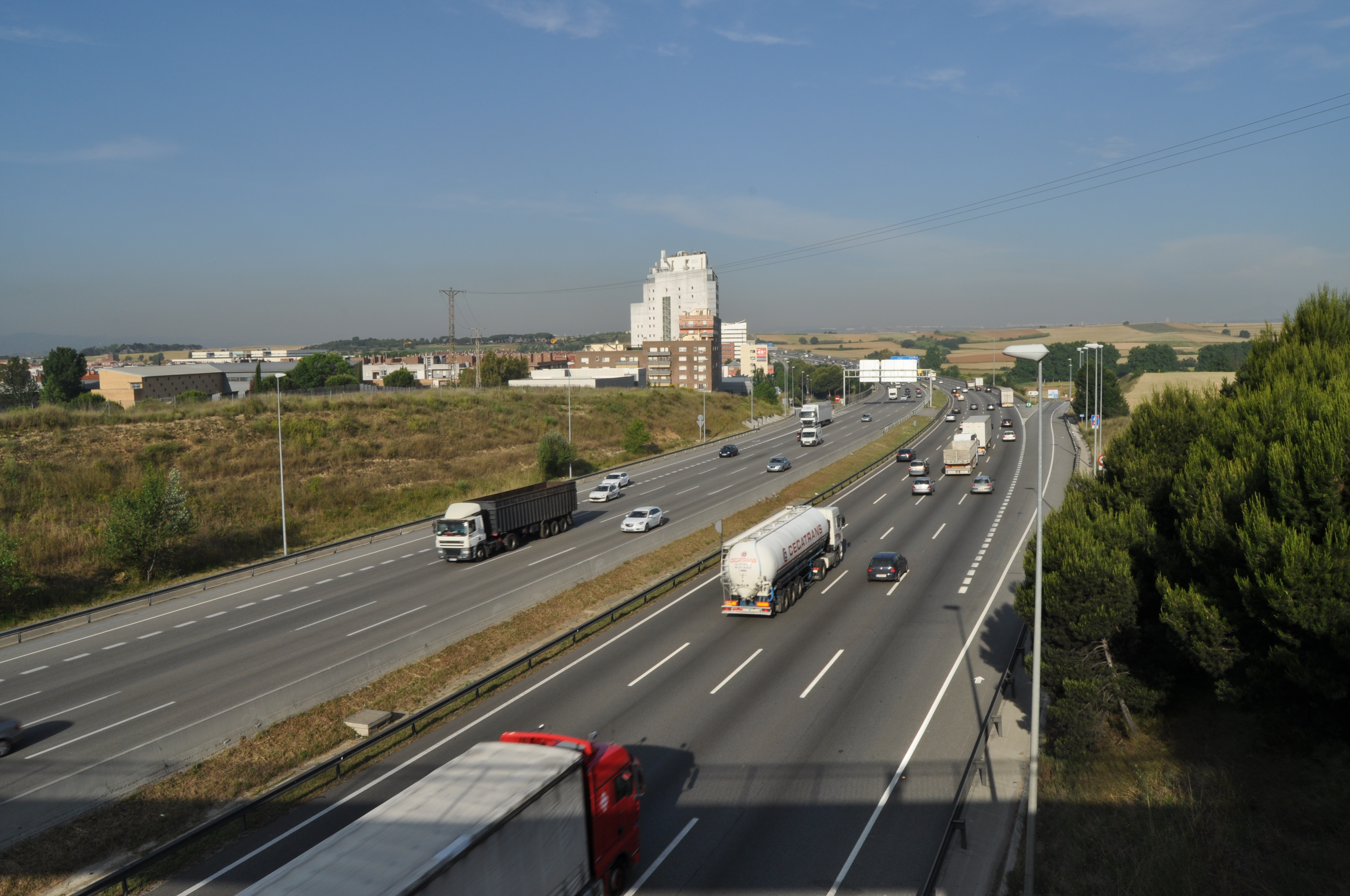 Autopista AP-7 in Mollet del Vallès (Spain).